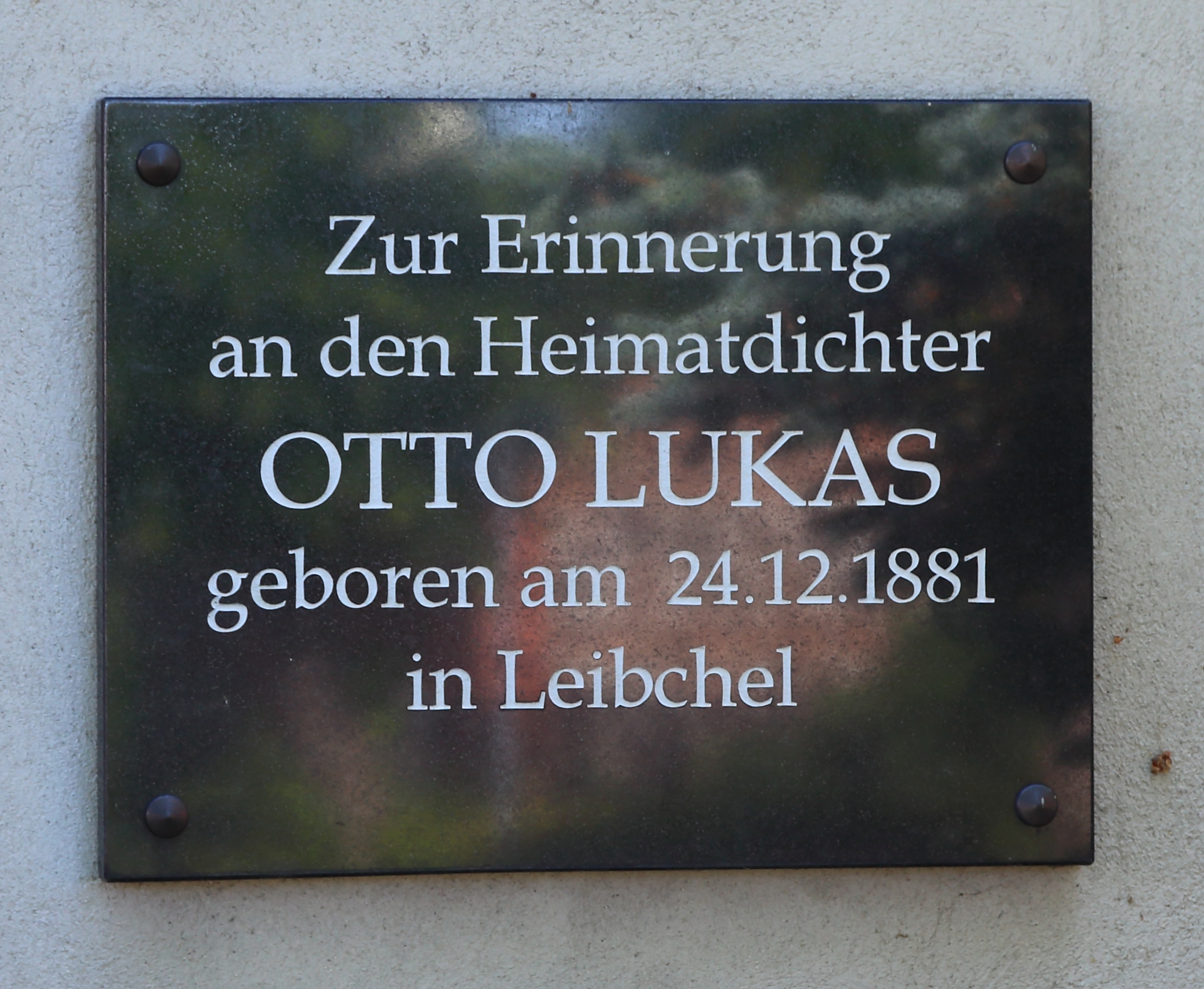 Memorial plaque for the German writer Otto Lukas in Leibchel, a district of Märkische Heide, Landkreis Dahme-Spreewald, Brandenburg, Germany.